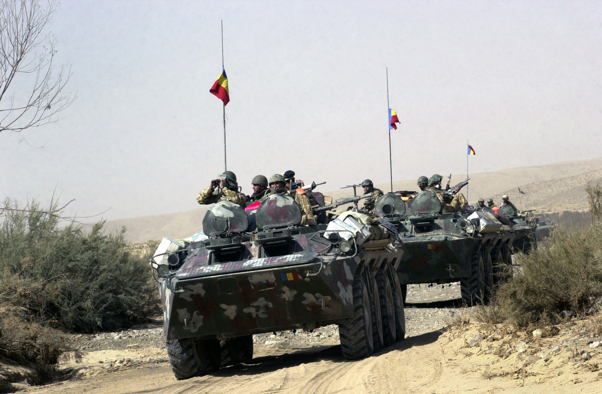 A coalition forces convoy consisting of US Army (USA) Soldier assigned to the 82nd Airborne Division and Romanian Soldier assigned to Task Force (Red Scorpion) use Romanian TAB-77 Armored Personnel Carriers to conduct a Sensitive Site Exploitation (SSE) patrol in Afghanistan, during Operation ENDURIG FREEDOM.